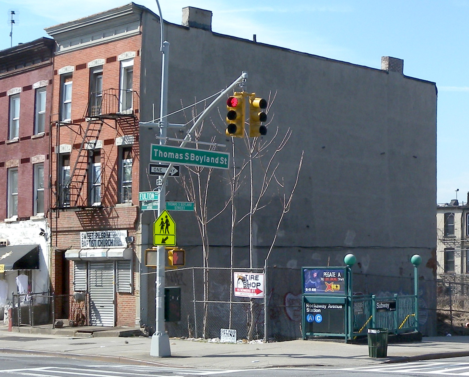 Looking northwest across Fulton Street at Rockaway Avenue (IND Fulton Street Line) on a sunny afternoon. EXIF position is a block east of true position due to photographer's error.